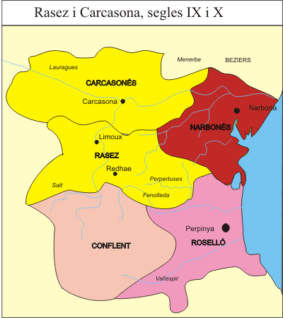 Count of Razès and Carcassonne IX–X.